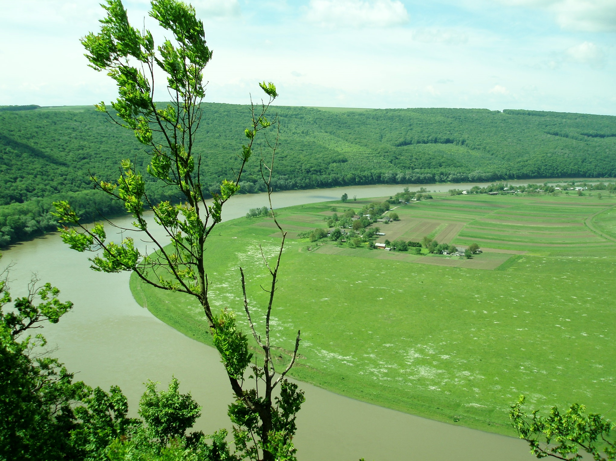 River Dniester between village Hubyn (Ternopil region) and town Chernlytsia (Ivano-Frankivsk region), western Ukraine.